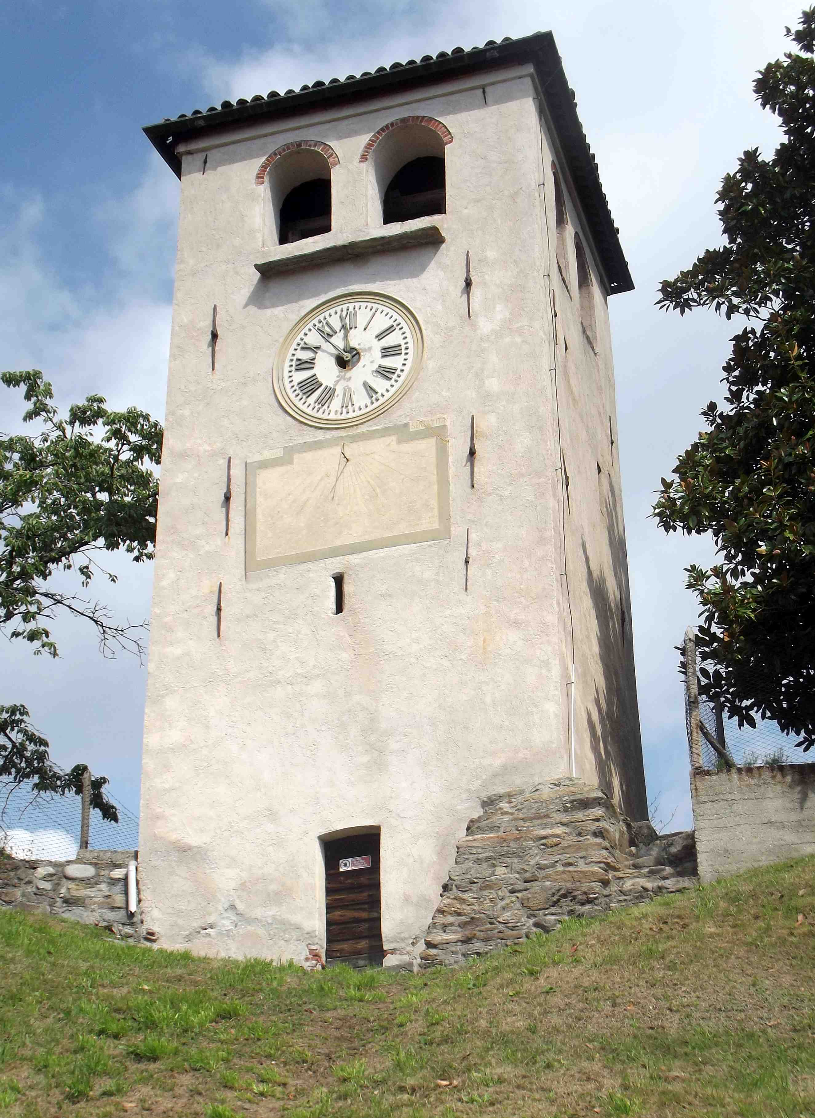 Sala Biellese (BI, Italy): the tower